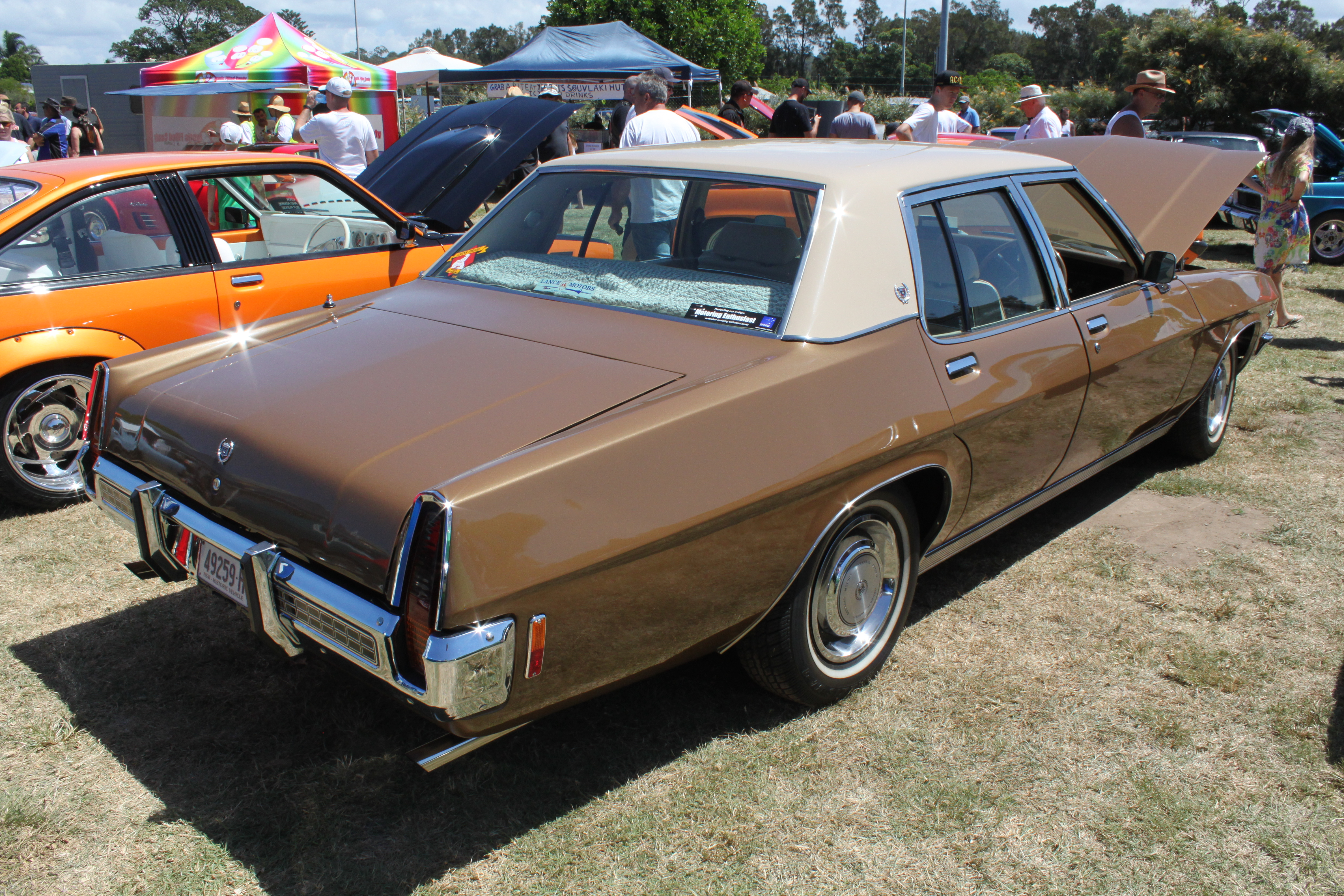 Northern Beaches Car & Bike Fest, Pittwater Rugby Park, NSW, February 2016